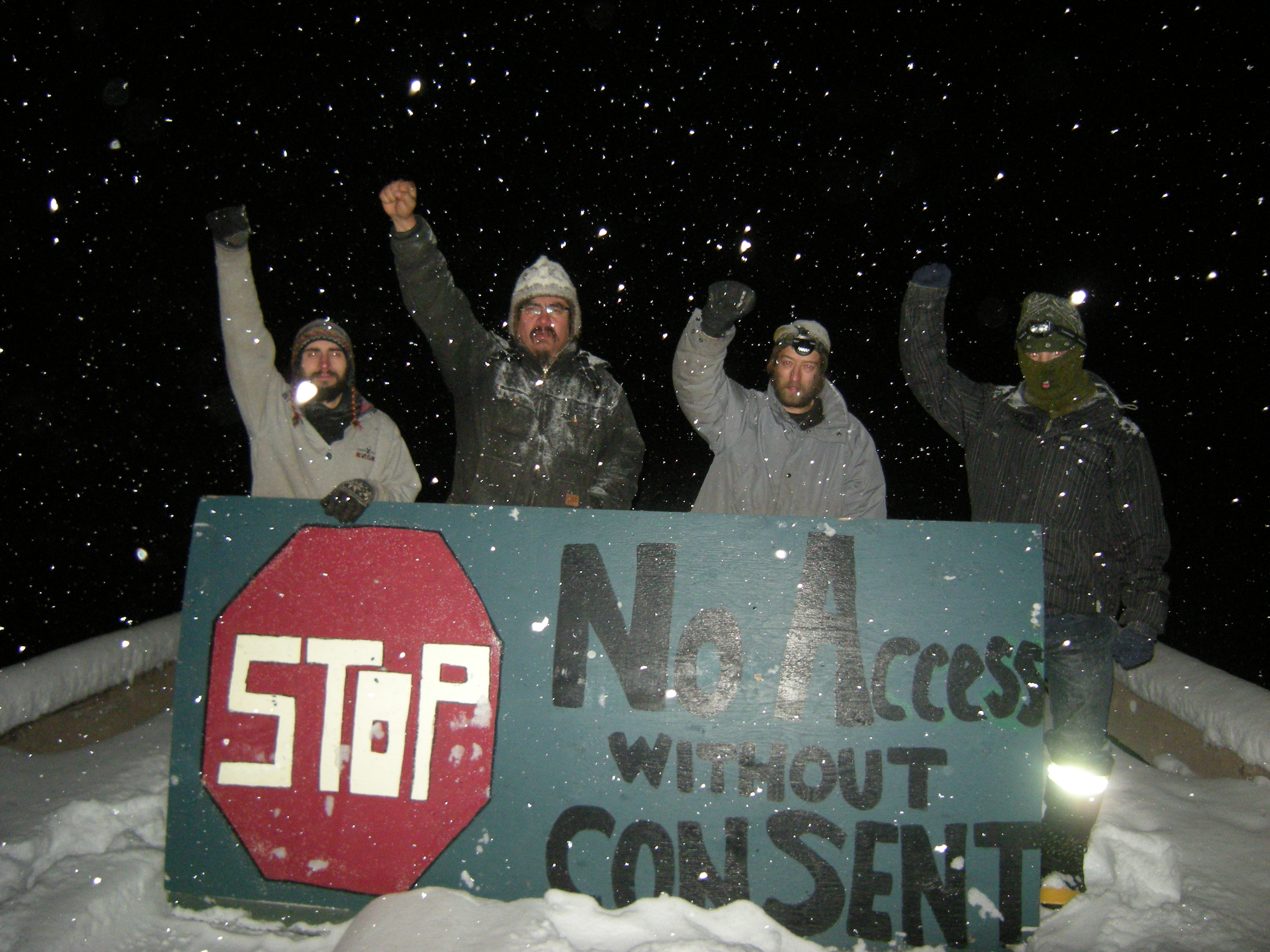 Unist'ot'en Camp members holding a large sign reading "No access without consent"